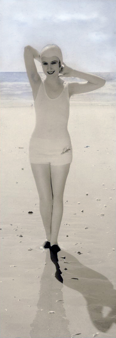 Bathing edition of magazine Het Leven, 1932. American movie star Dorothy Jordan on the beach. The photograph touched up / retouched / repainted